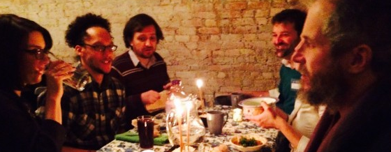 St. Lydia's Dinner Church, Brooklyn, NY